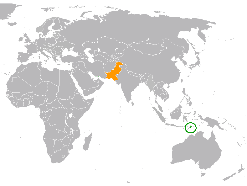 Map showing locations of both East Timor and Pakistan